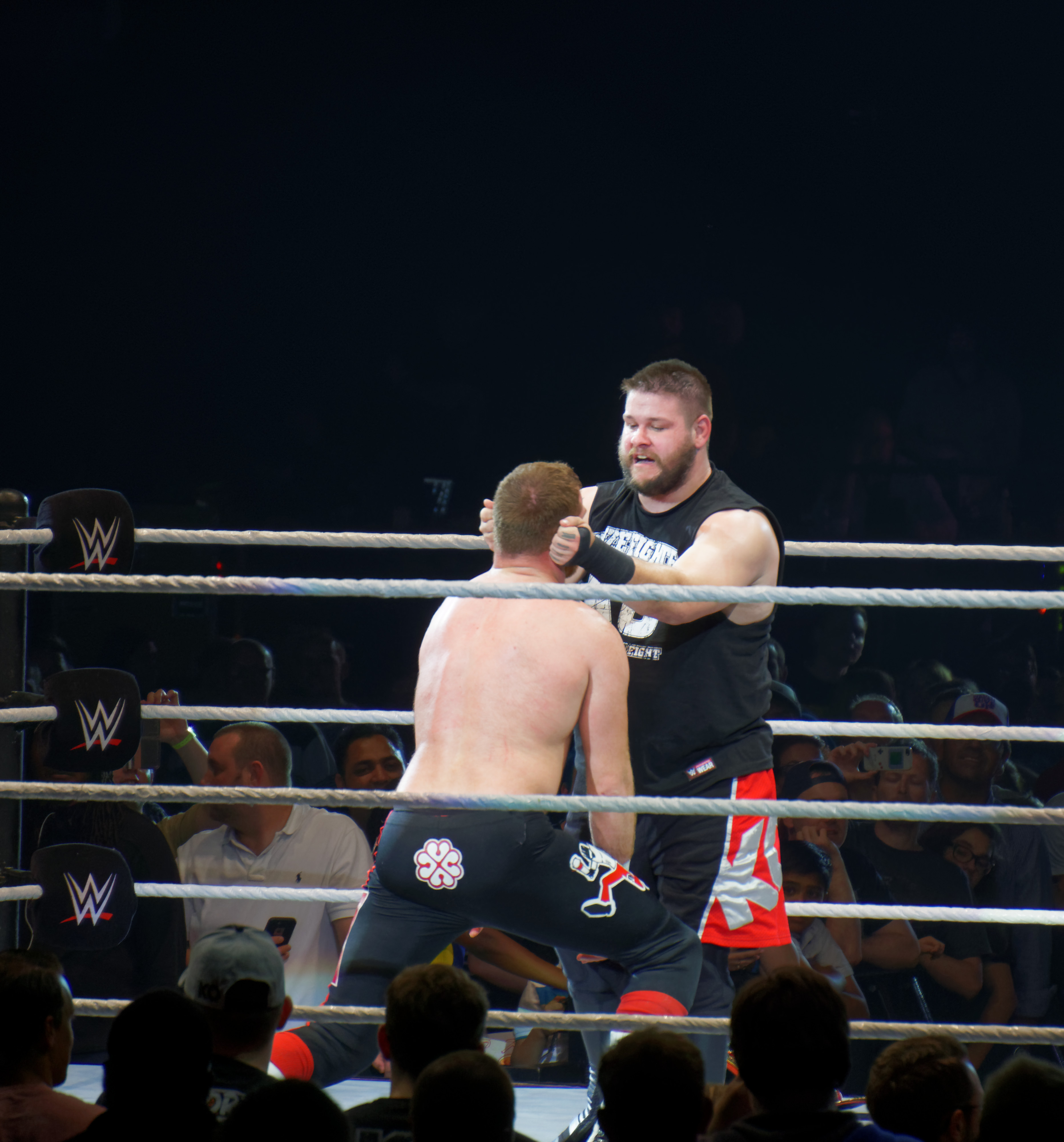 WWE Live returns to London this September Join Roman Reigns, Seth Rollins and more WWE Superstars at the 02 Arena for a one-night-only WWE Live in London on Wednesday, 7 Sept. Kevin Owens (c) def. (pin) Sami Zayn, Seth Rollins Type of match : 3-way Match For : WWE Universal Championship